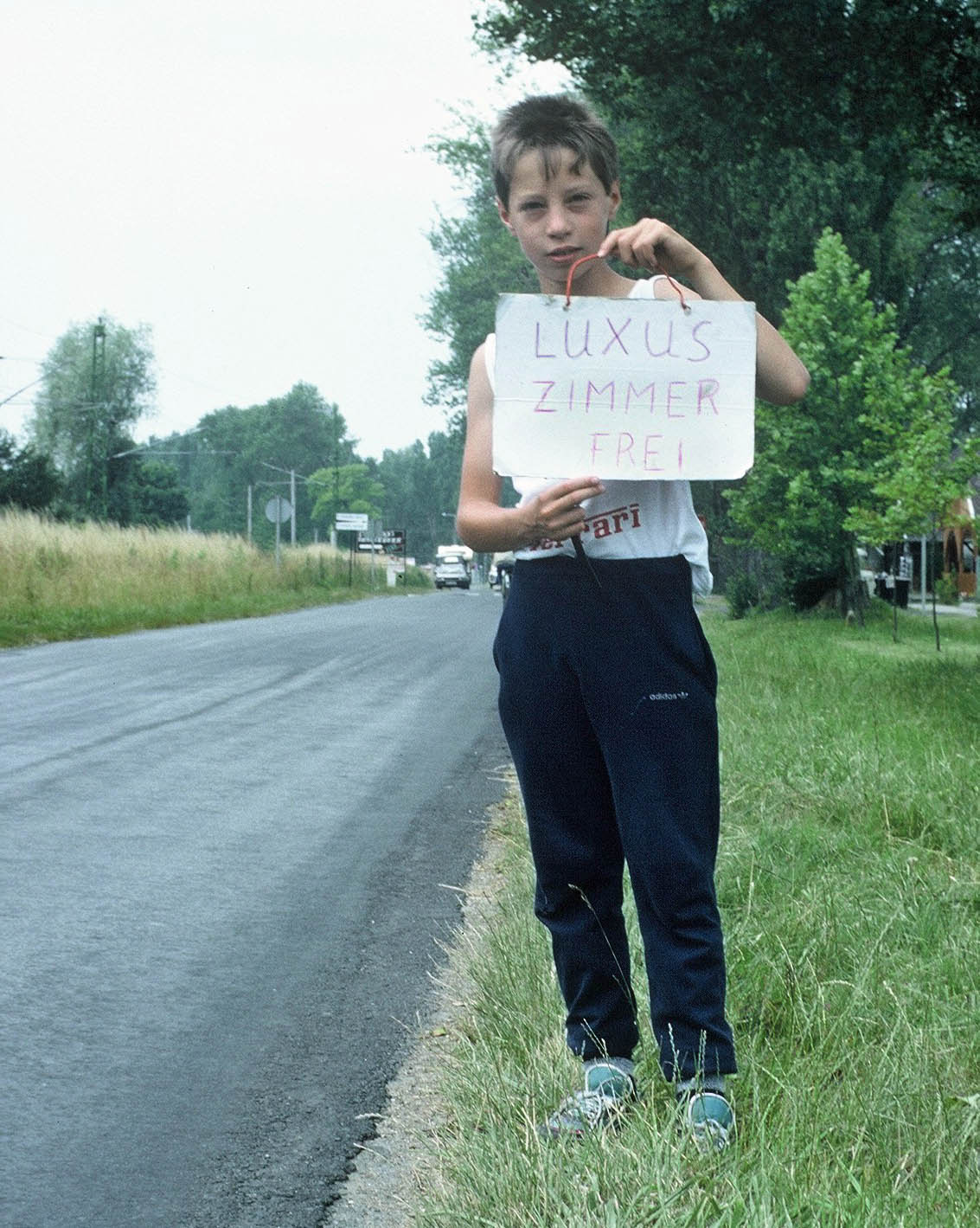 Border of Czech Republic and newly united Germany, summer 1991.